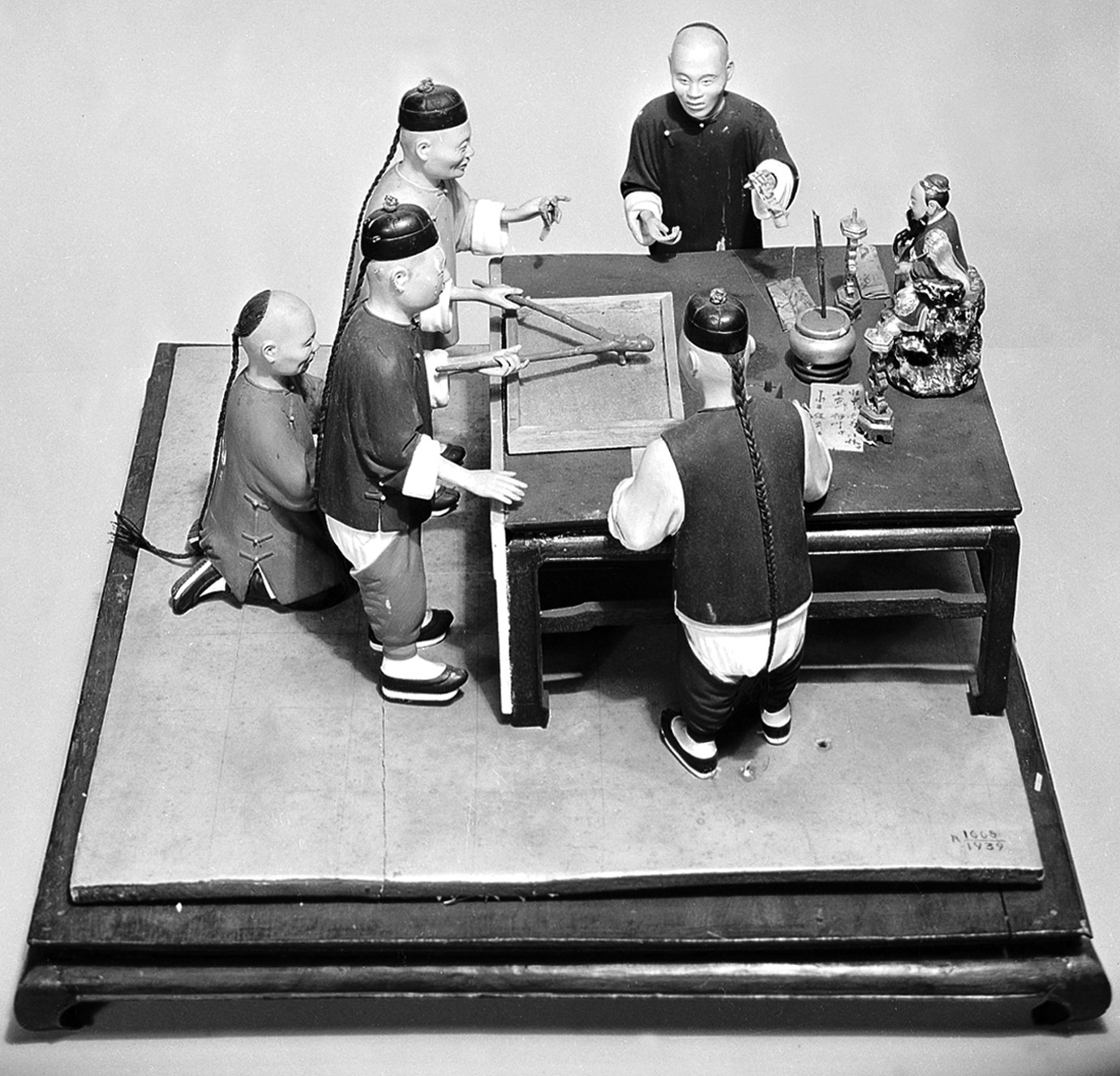 Scene in a Medicine Temple Group of model figures showing a worshipper praying to the Medicine God for a patient. (Ching period). Asian Collection Keywords: oriental collection: scene in; ORIENTAL MEDICINE; r1665/1939; Medicine, East Asian Traditional